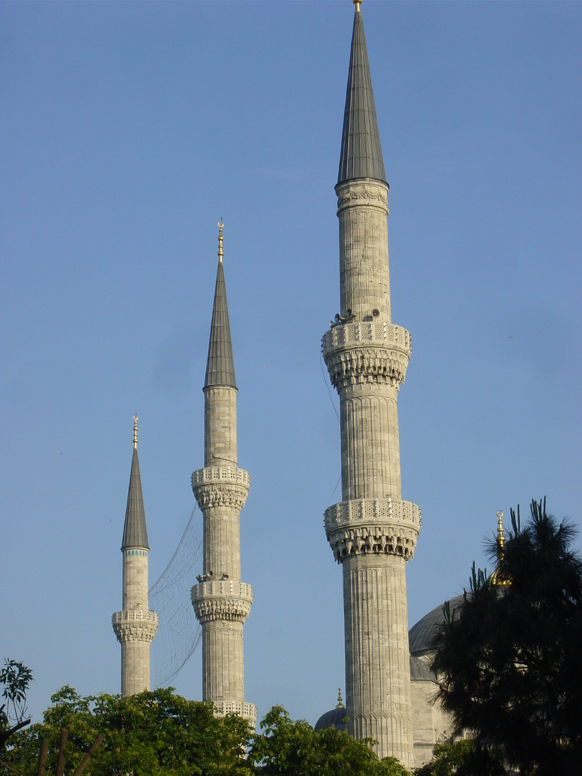 Three Minarets of the Blue Mosque in Istanbul (Sultanahmet Mosque, in turkish: Sultanahmet Camii). Picture by: Giovanni Dall'Orto, May 29 2006.